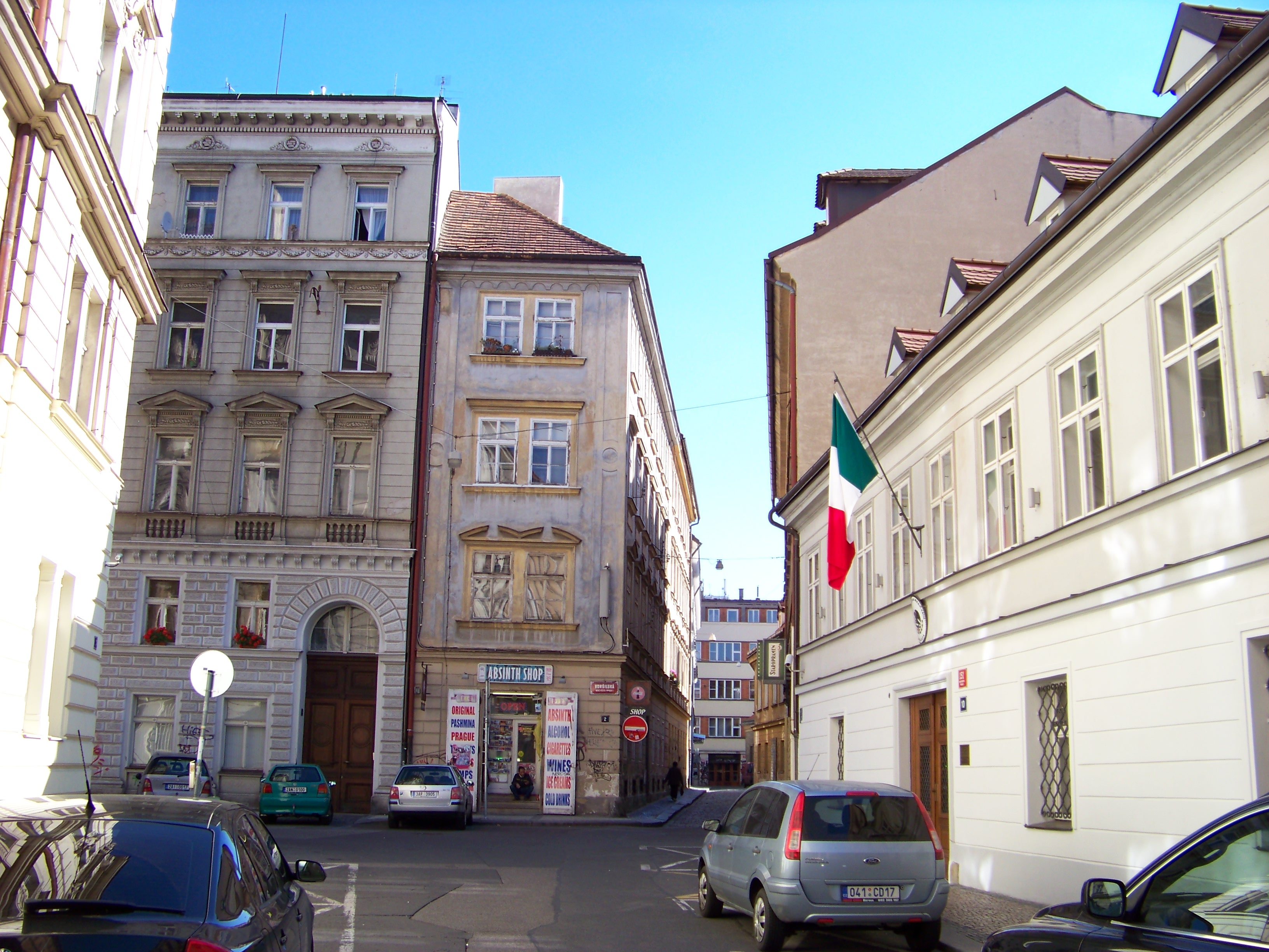 Prague-New Town. V jirchářích street. - Google Maps - Google Earth